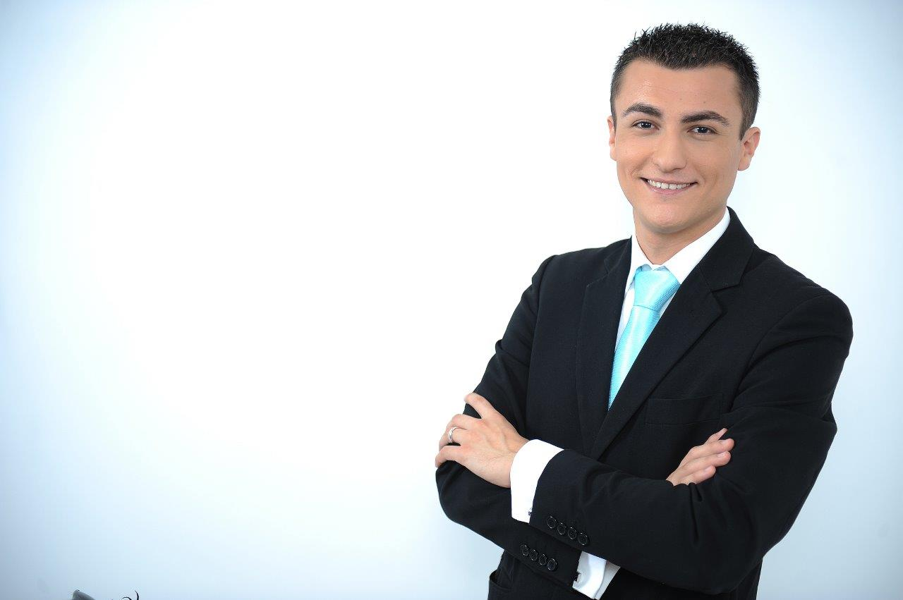 Hon. Silvio Schembri